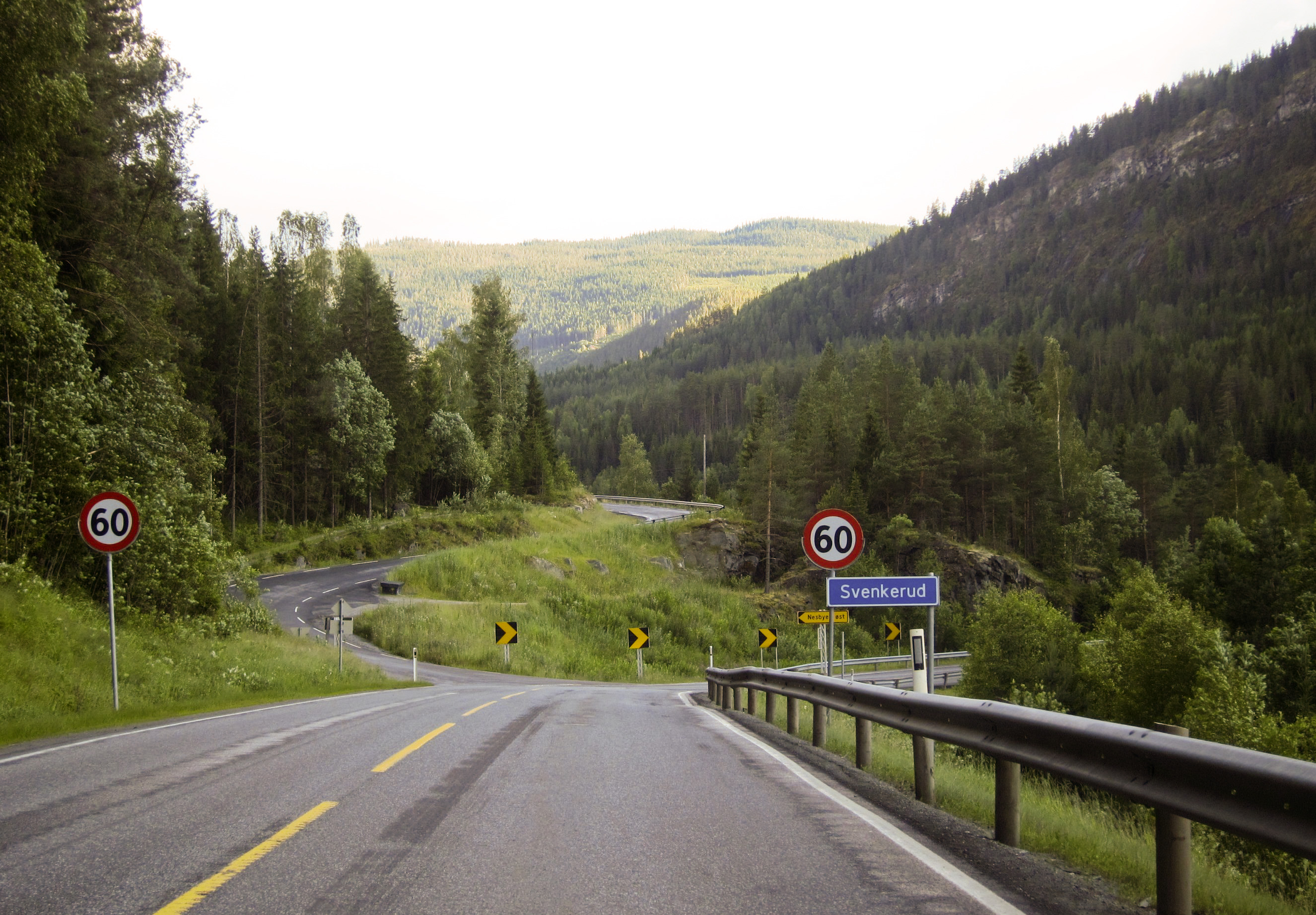 Riksveg 7 (route 7) at Svenkerud, Hallingdal, Norway